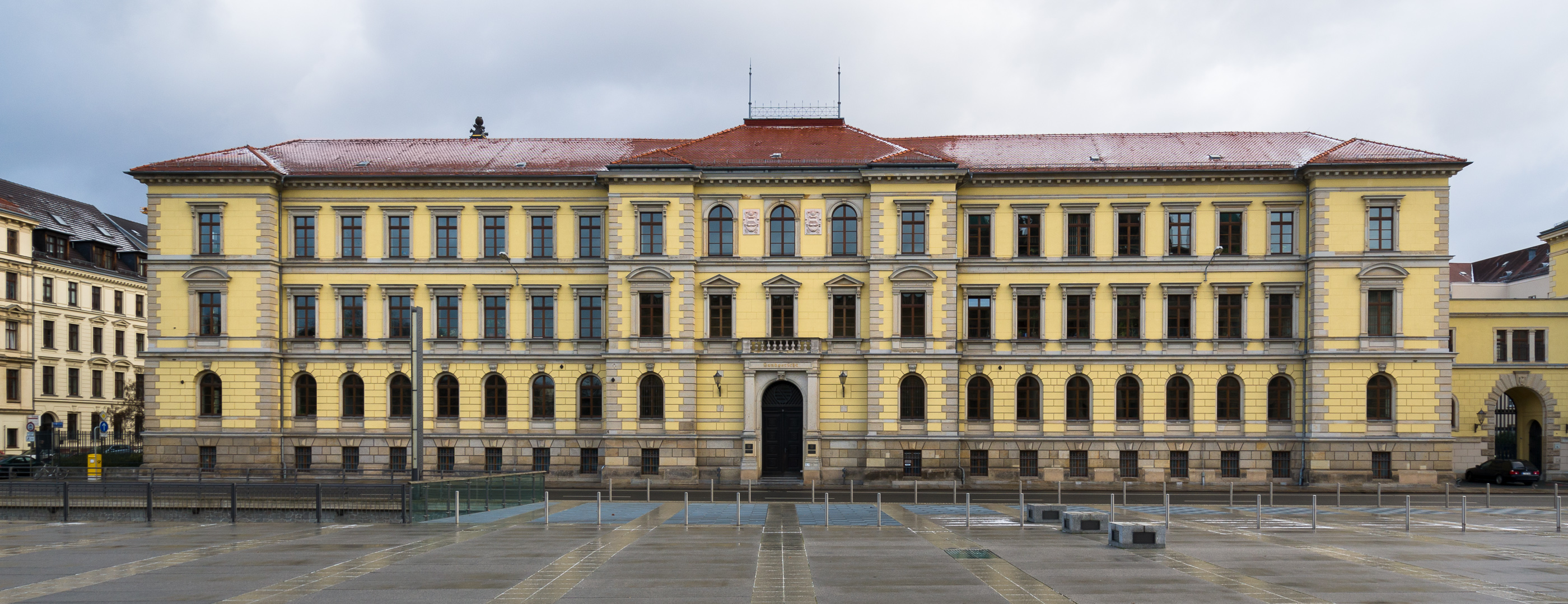 District Court Leipzig